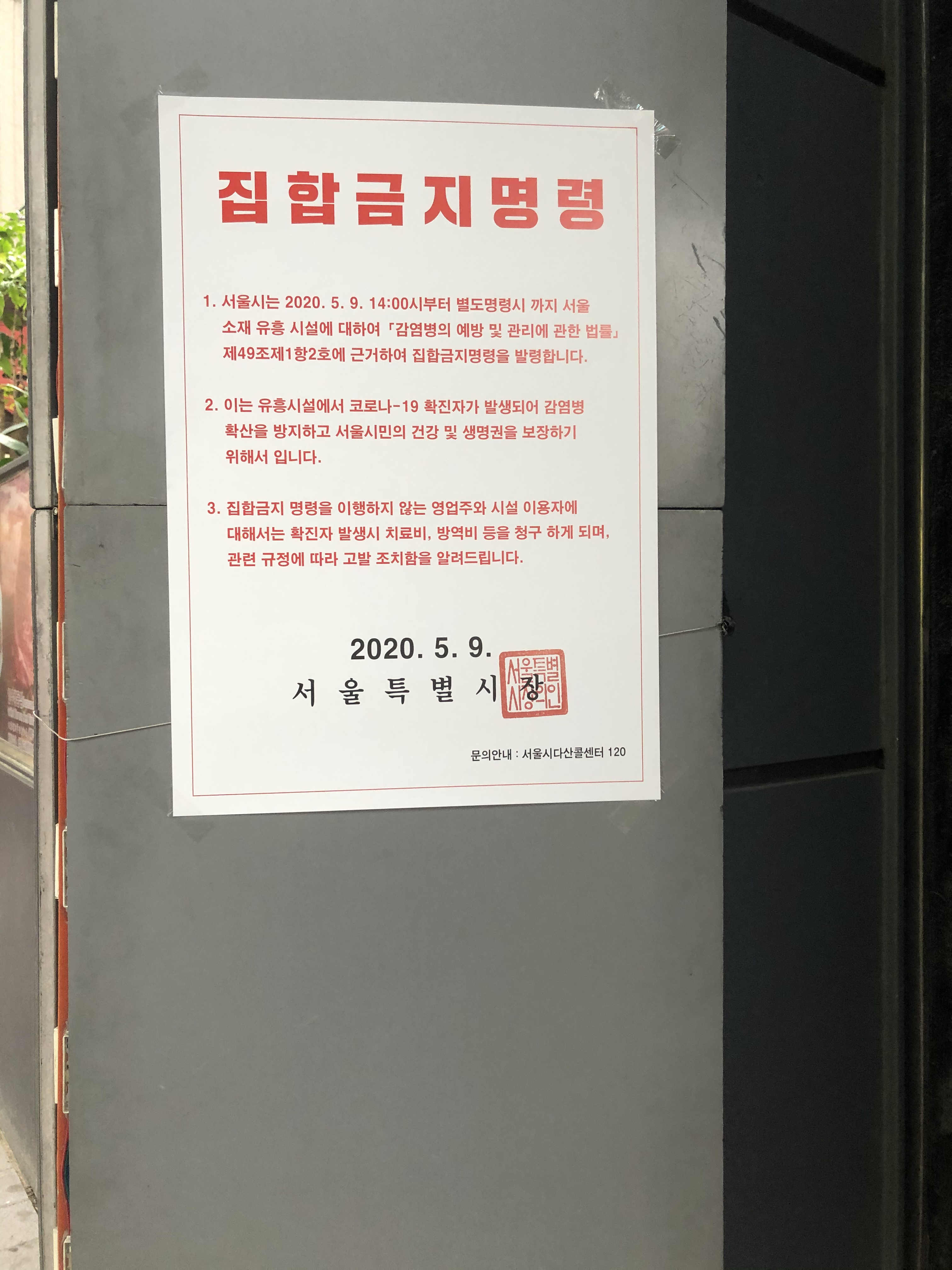 A shutdown ordered by Seoul Metropolitan Government after the Itaewon club COVID-19 case